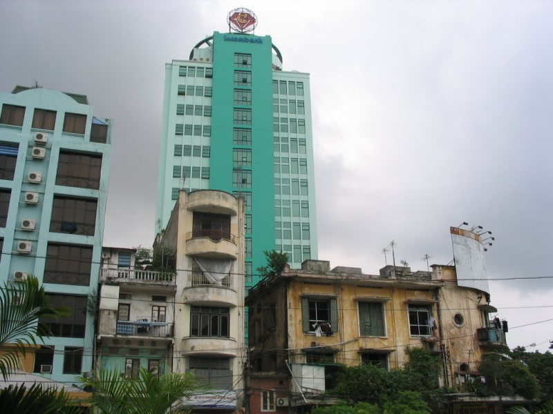 Description: Bank in Hanoi. Source: Camille Harang